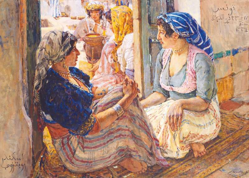 "Tunisian women" painting by A. Roubtzoff